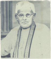 Chekottu Asan-Syrian Christian Reformist and Poet